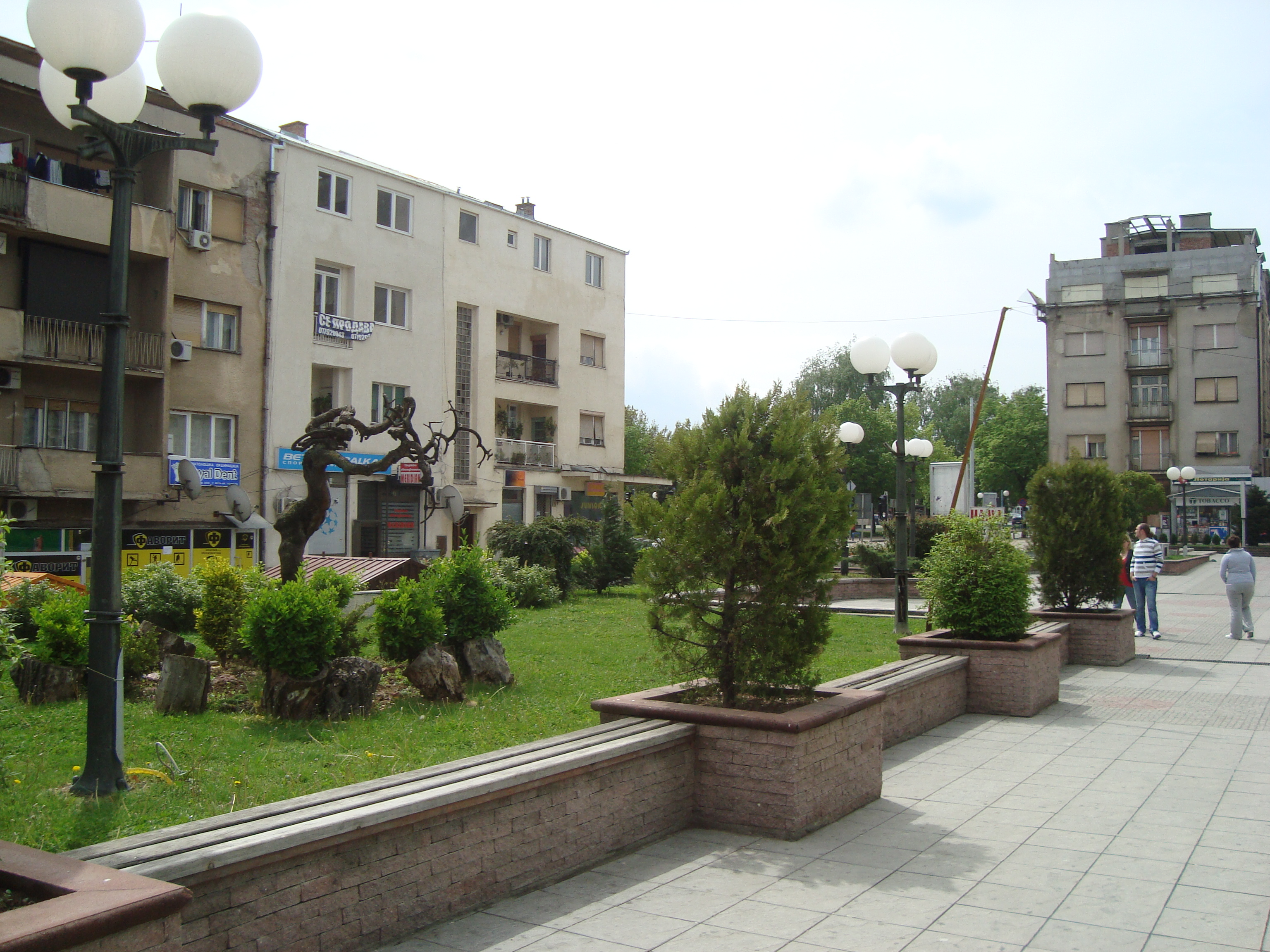 City Square, Kumanovo, Macedonia.